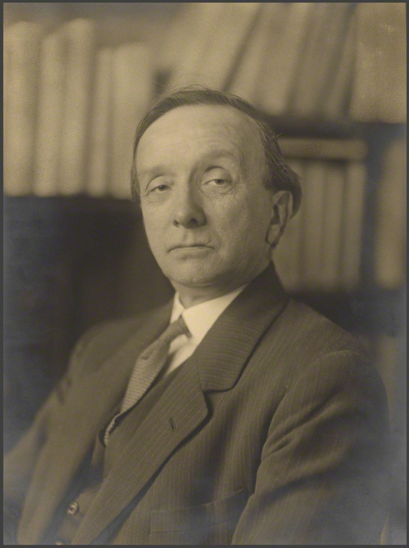 Portrait of Arthur St. John Adcock (1864–1930), English novelist and poet.